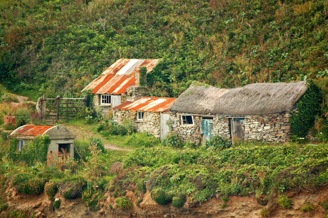 Fishermen's cottages, Prussia Cove Of course these cottages are long since derelict, but they are still used to store fishing tackle, lobster pots and suchlike. They can be found high above Bessy's Cove, in the Prussia Cove area of the Cornish coast path.